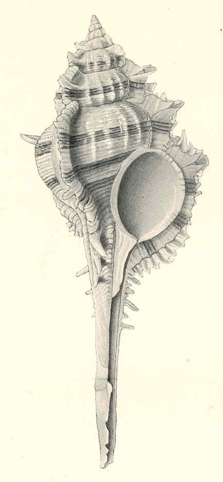 Malabar Murex Murex malabaricus, dredged off the Malabar coast from a depth of 45 fathoms. This species is also found on coral ground in the neighborhood of the Andamans, at a similar depth Subject: Murex, Shells Tag: Shellfish